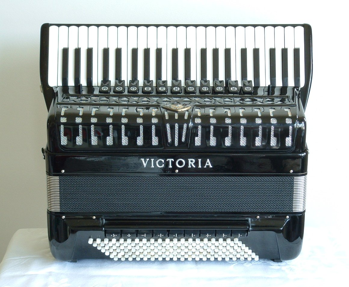 Piano-Accordion. 140-bass convertor/free-bass Model Emperor concert accordion built by Victoria company of Castelfidardo, Italy in 1978, owned by Henry Doktorski.